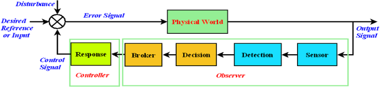 Illustrates the observer controller subsystems of an early warning system